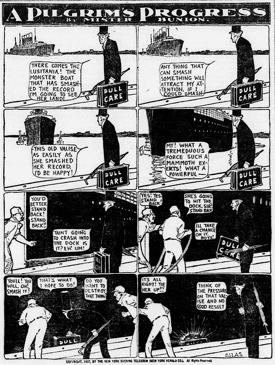 A Pilgrim's Progress by Mister Bunion featuring the Lusitania, New York Evening Telegram, October 15th, 1907